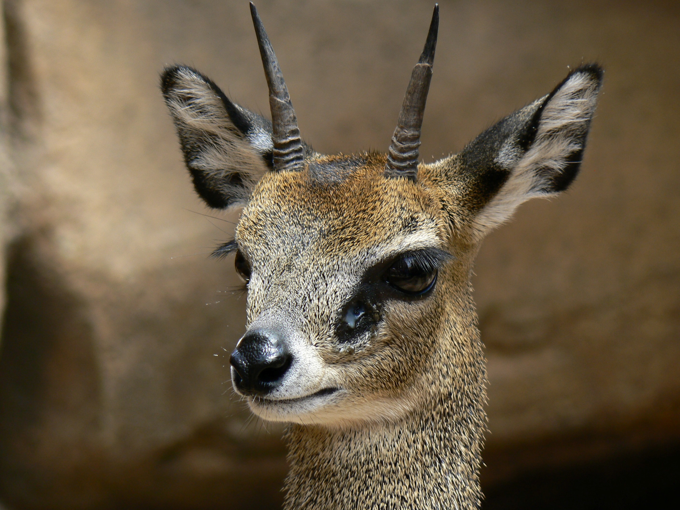 Klipspringer (Oreotragus oreotragus), head detail